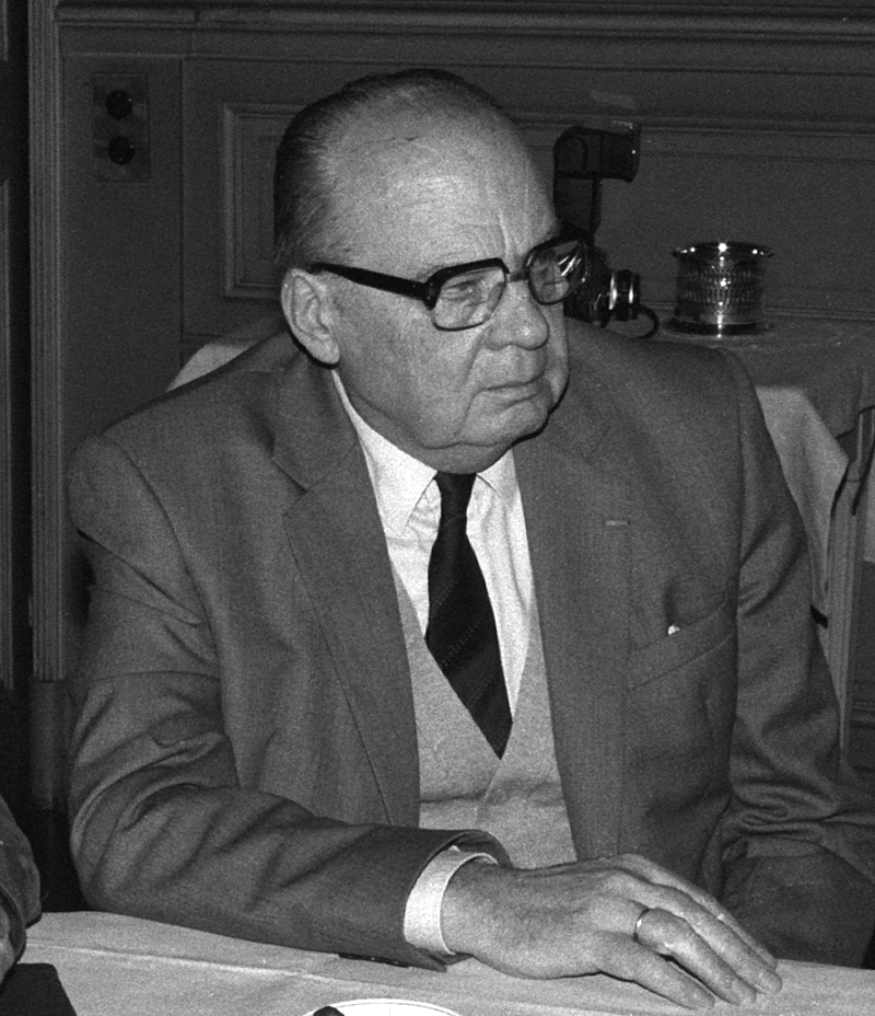 Aquilin Janssens de Bisthoven (1915-1999), Belgian art historian and museum director.